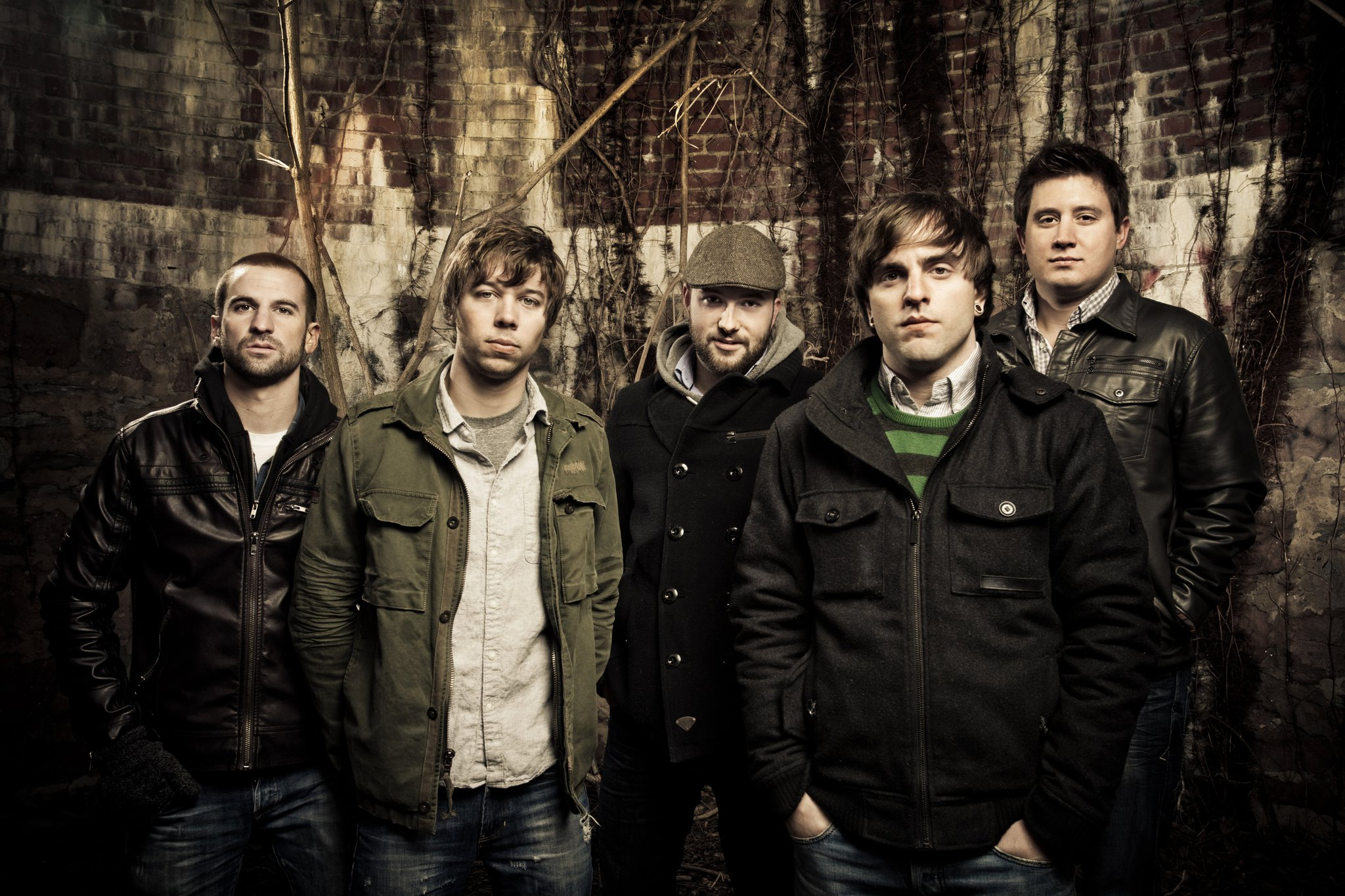 August Burns Red, April 2011. From left to right: Matt Greiner, JB Brubaker, Jake Luhrs, Dustin Davidson, Brent Rambler